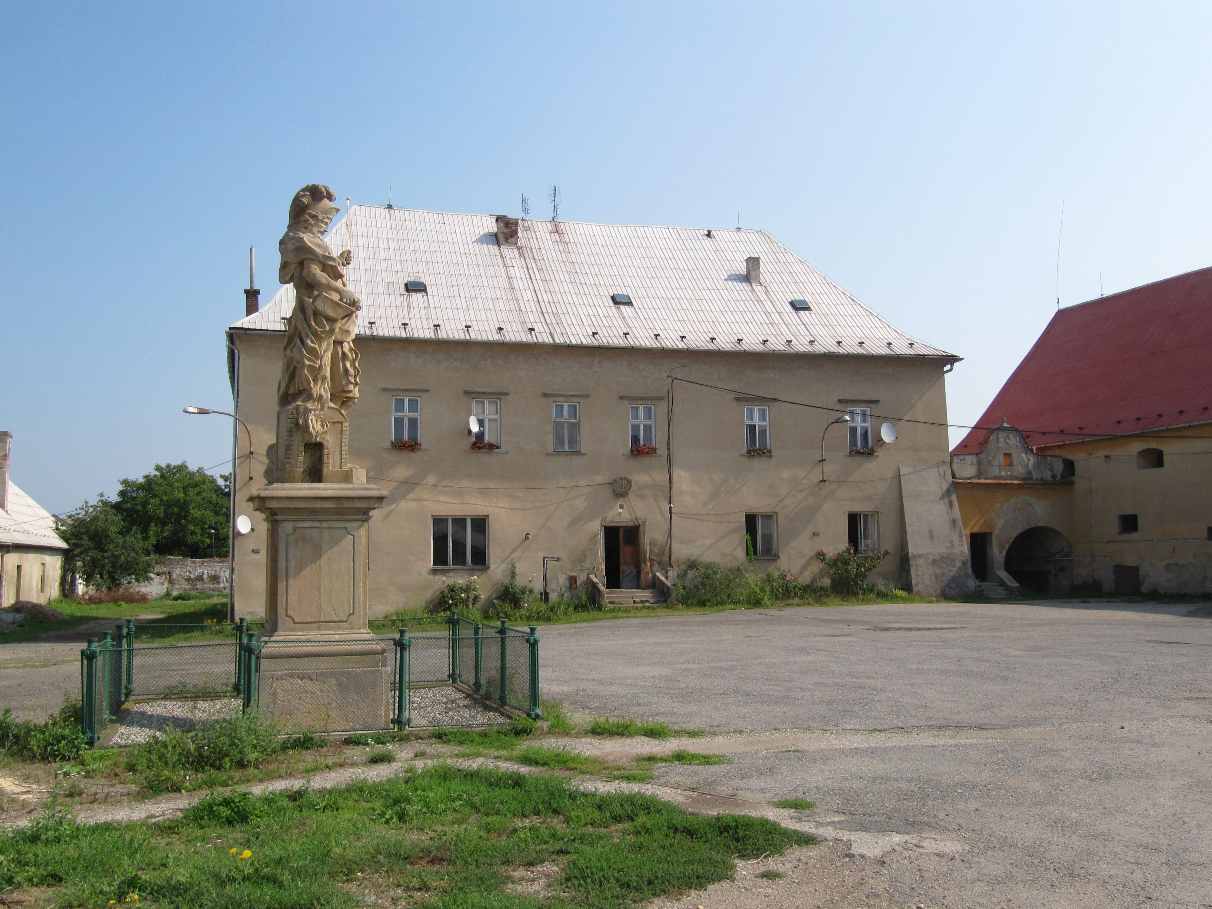 Skrbeň in Olomouc District, Czech Republic. The central building of the farm in the center of the village hides the ancient fortress. Remarkable are especially the Renaissance architectural details, such as windows, portal with arms of the owners, or simple Renaissance staircase in the hallway of the ground floor. The other attraction is the statue of St. Florian from the sculptor Wenzel Render of Olomouc, which originally stood on the place of present-day Jupiter fountain on square Dolní náměstí in Olomouc.